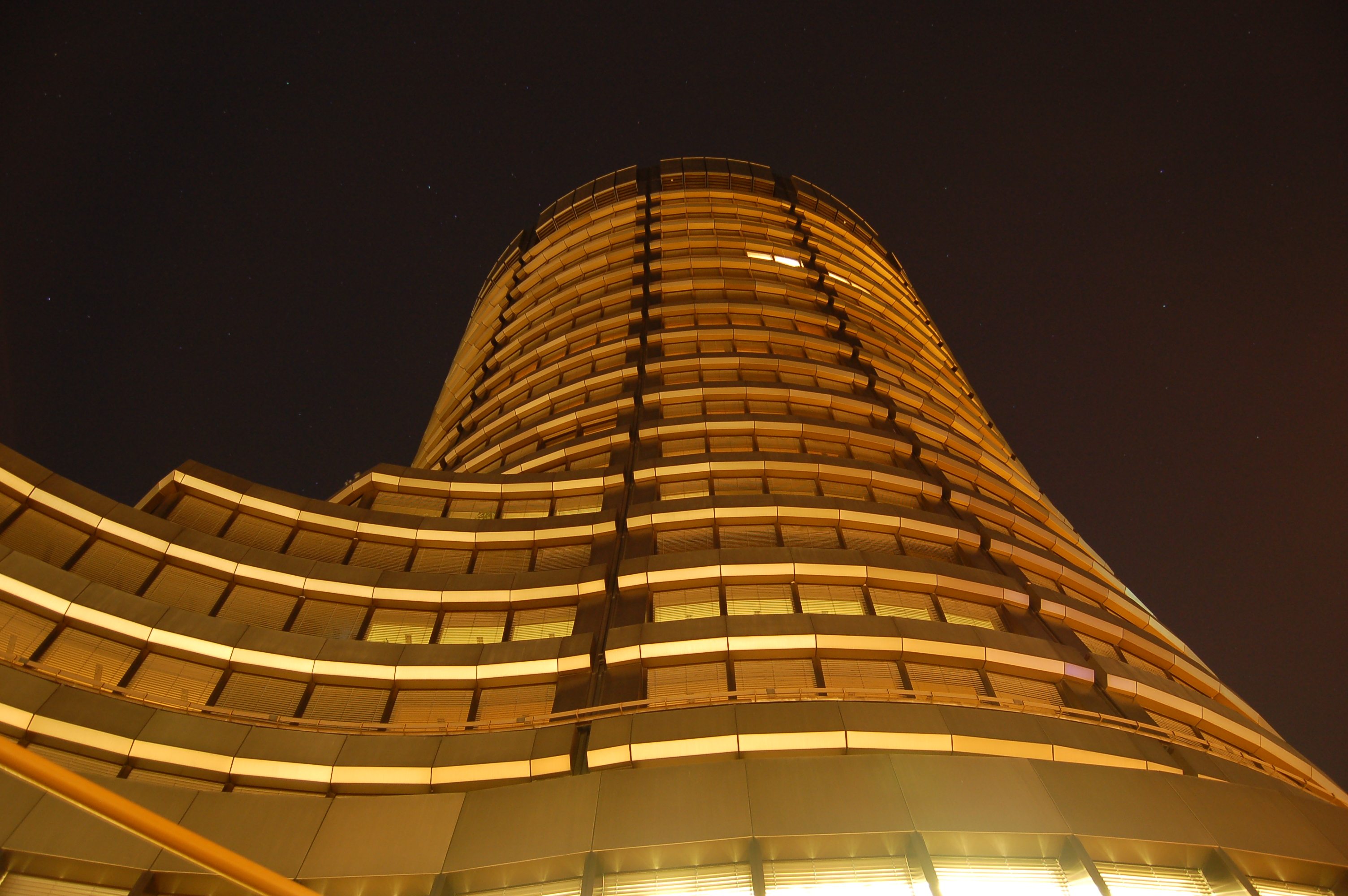 The building of the Bank for International Settlements (BIZ) in Basel near the swiss railway station at night